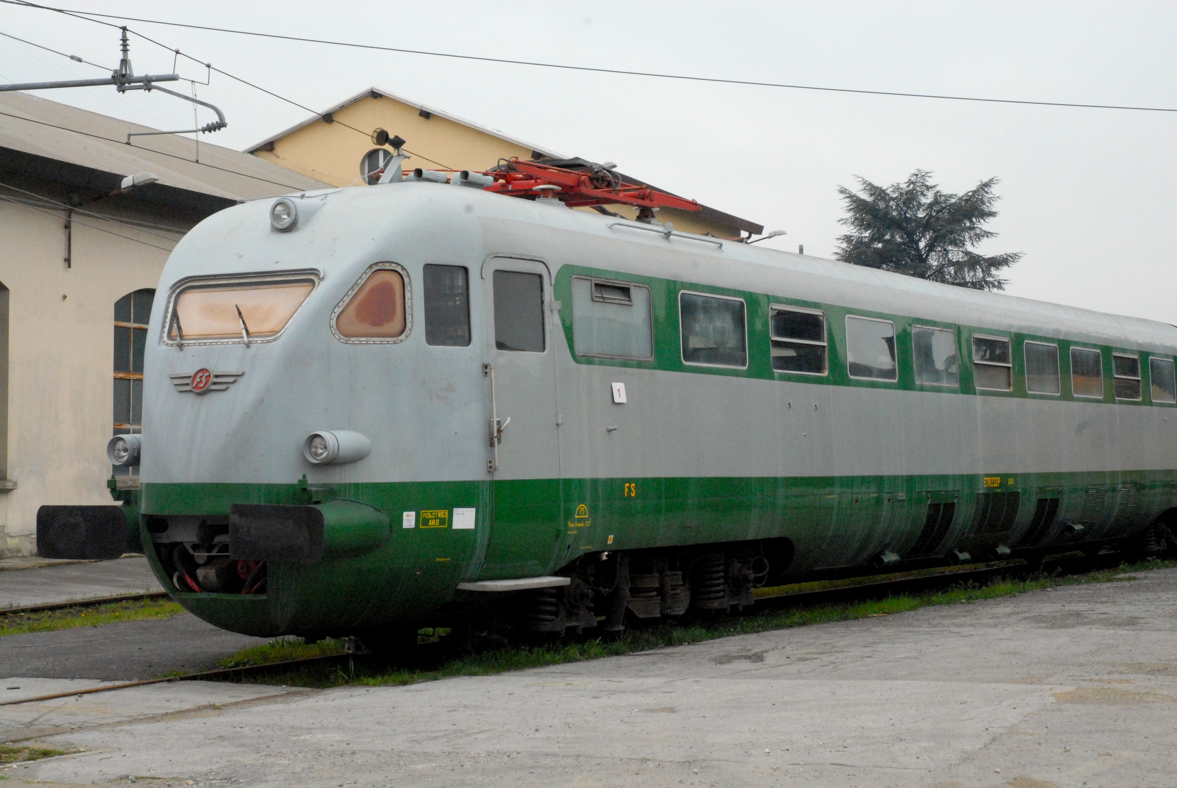 Photos from the FS railway deposit in Pistoia, Italy. head of FS ETR 232. This unit, known as 212 before the ugrade of the 1960s, is the original trainset that extabilished the world record for speed, gained on 20 july 1939 near Piacenza. The trainset has been preserved as historical train, and is one of the two surviving ETR200 trainsets.